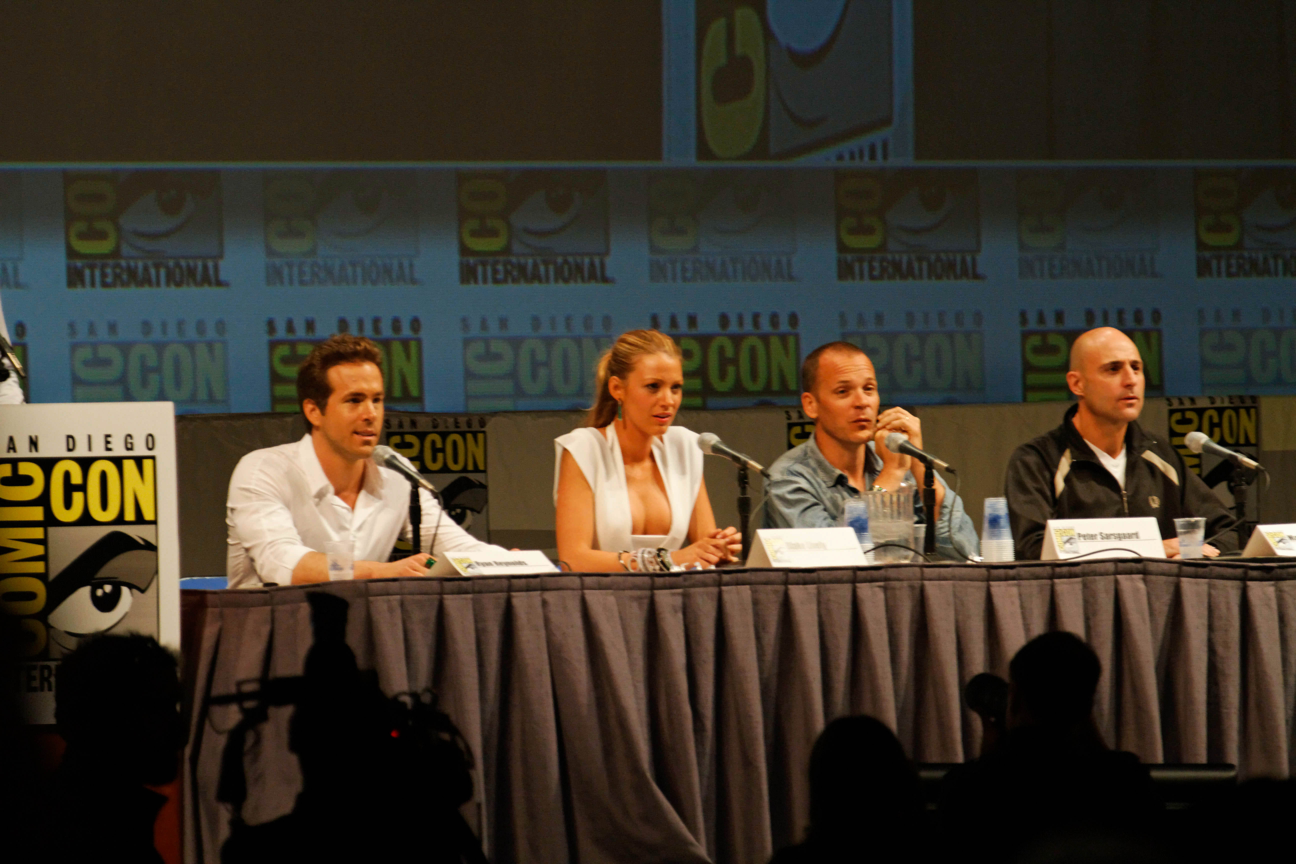 Green Lantern panel at the 2010 San Diego Comic-Con International with Ryan Reynolds, Blake Lively, Peter Sarsgaard and Mark Strong.